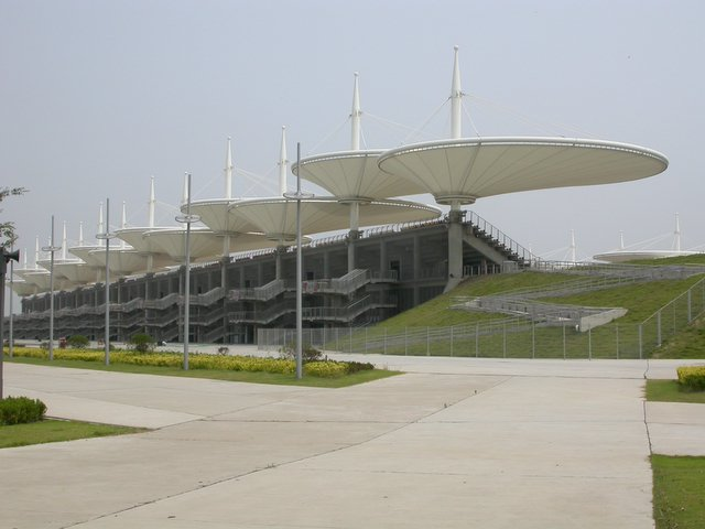 Shanghai International Circuit.